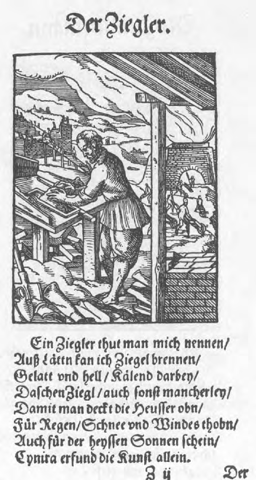 This is a scan of the historical document